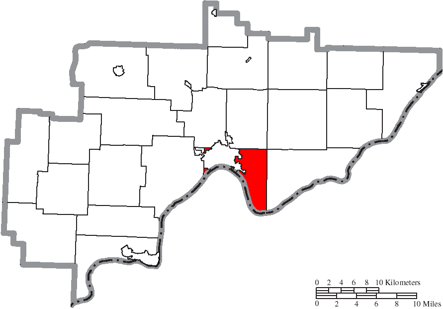 Map of the municipal and township boundaries of Washington County, Ohio, United States, as of the 2000 census, with the location of Marietta Township highlighted. Township borders are shown only in unincorporated areas in order to differentiate incorporated and unincorporated areas more clearly.